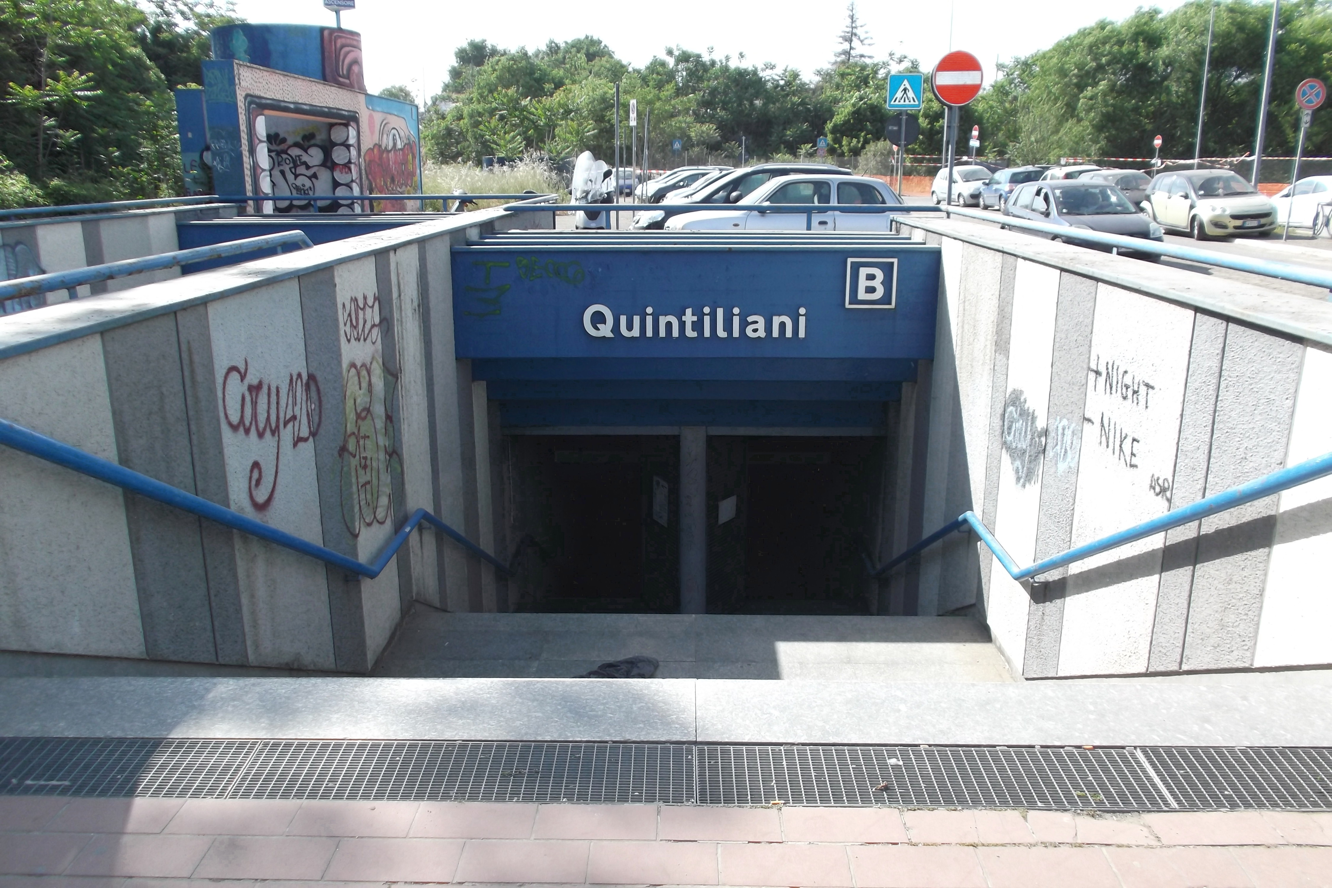 Street entrance of Quintiliani Metro B station in Rome